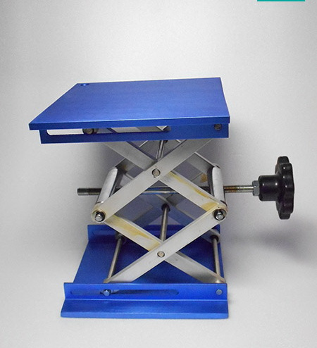 Lifting stage in chemistry or other labs